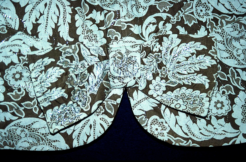 According to Smithsonian catalog: "This dress was made by Mrs. G. R. (Dorothy) Overall of Caldwell, Kansas, in 1959 for the Cotton Bag Sewing Contest sponsored by the National Cotton Council and the Textile Bag Manufactureres Association. The dress is made of cotton bag fabric, with an overall design of white flowers on a brown (originally black) ground. The dress is lined with black organdy, and machine quilted with a synthetic silver sewing thread. Mrs. Overall was awarded 2nd place in the Mid-South section of the contest."